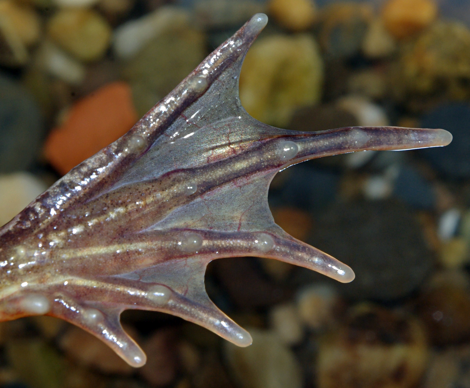 Hind leg detail of Common frog (Rana temporaria), León (Spain).